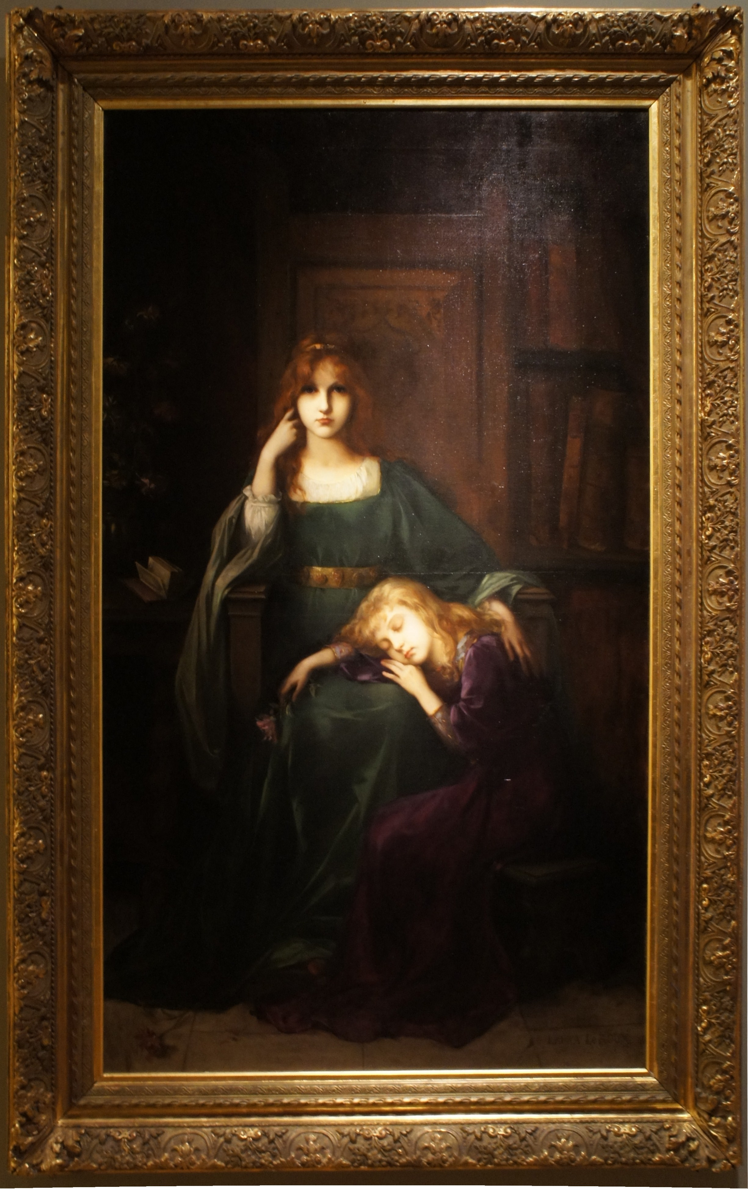 présenté au premier étage.